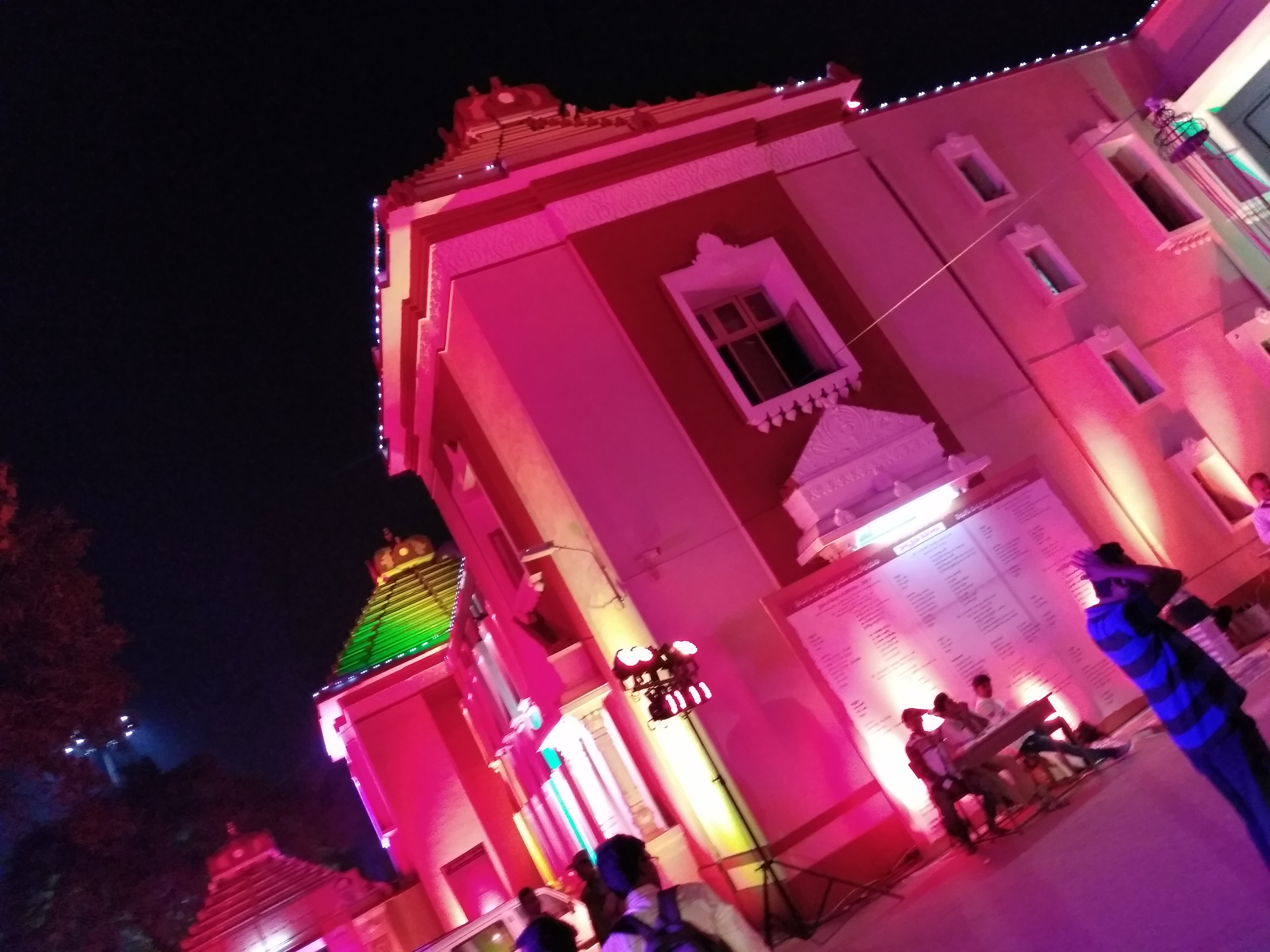 తెలుగు ప్రపంచ మహాసభల వద్ద దృశ్యాలు,వ్యక్తులు,సమావేశాలు